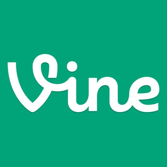 Vine logo